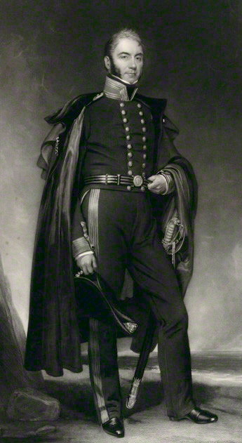 Vice-Admiral William Gordon (1785 – 3 February 1858)